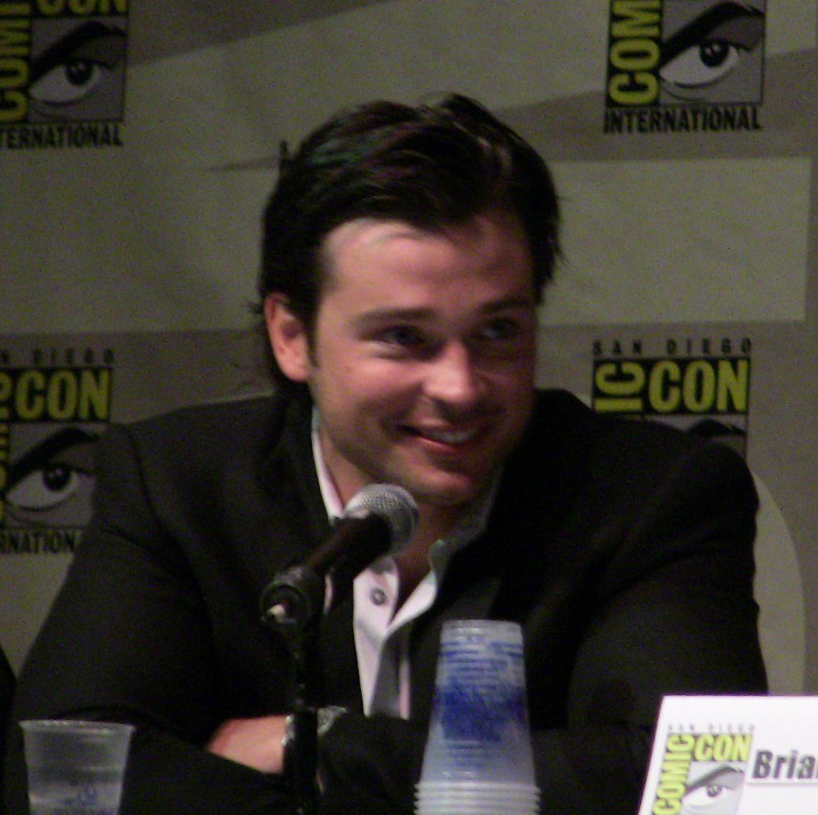 Actor Tom Welling – Comic-Con 2009 - Smallville - San Diego, Calif. - July 26, 2009.